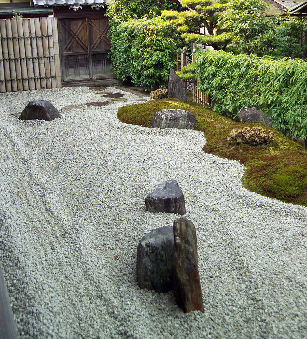 Garden of the Cross at Zuiho-in, a subsidiary temple of Daitoku-ji, Kyoto, Japan. Zuiho-in was established by the Christian daimyo Ōtomo Sōrin, who laid out the stones in this garden in the pattern of the Cross. I took this photo and release my rights in the file to the public domain; individuals and organizations retain rights to images in the file.